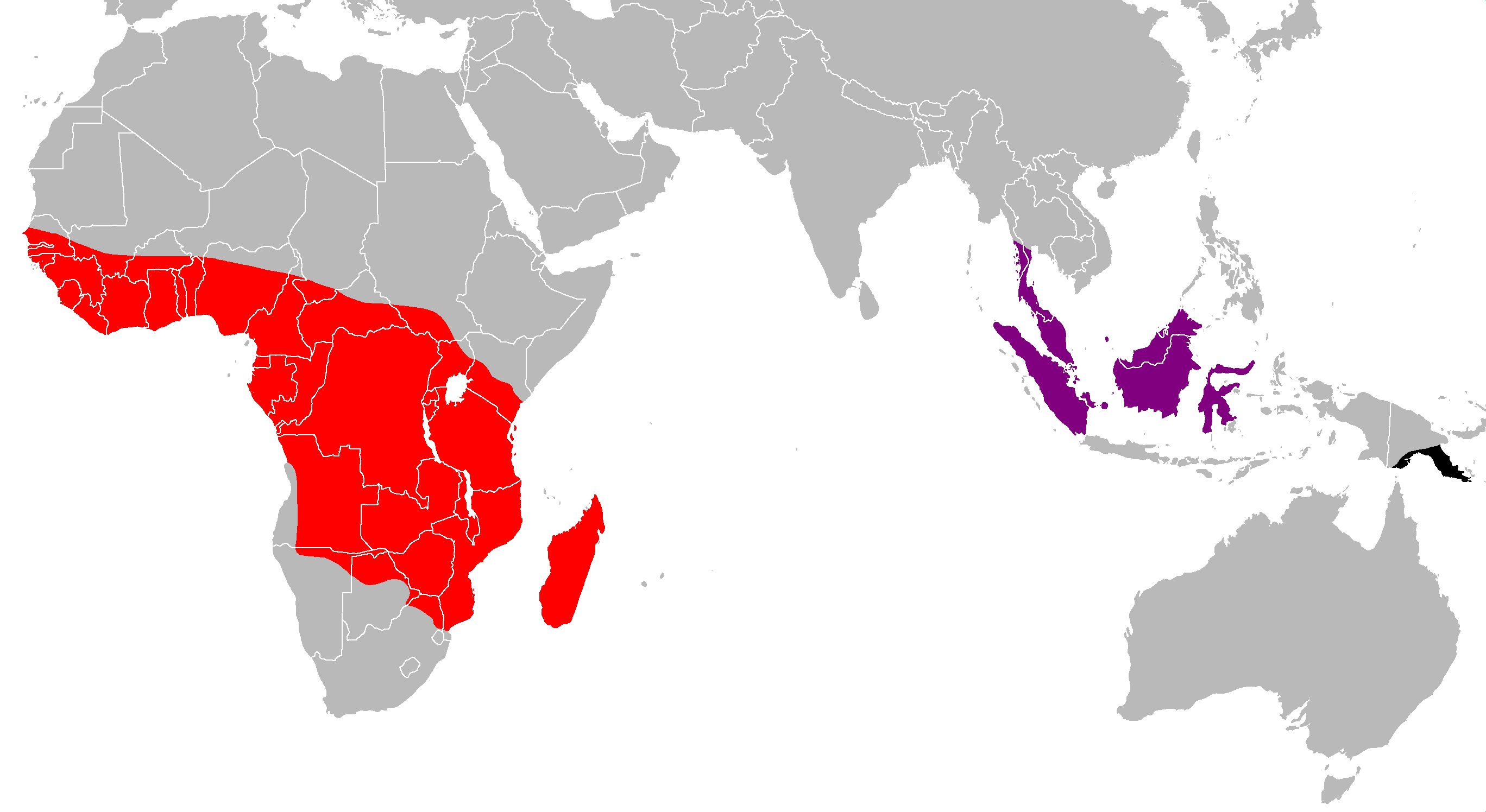 Subspecies of the Bat Hawk (Macheiramphus alcinus). Based on: James Ferguson-Lees, David A. Christie: Raptors of the World. Houghton Mifflin Harcourt, 2001, p. 350 Purple: M. a. alcinus Red: M. a. andersonii Black: M. a. papuanus